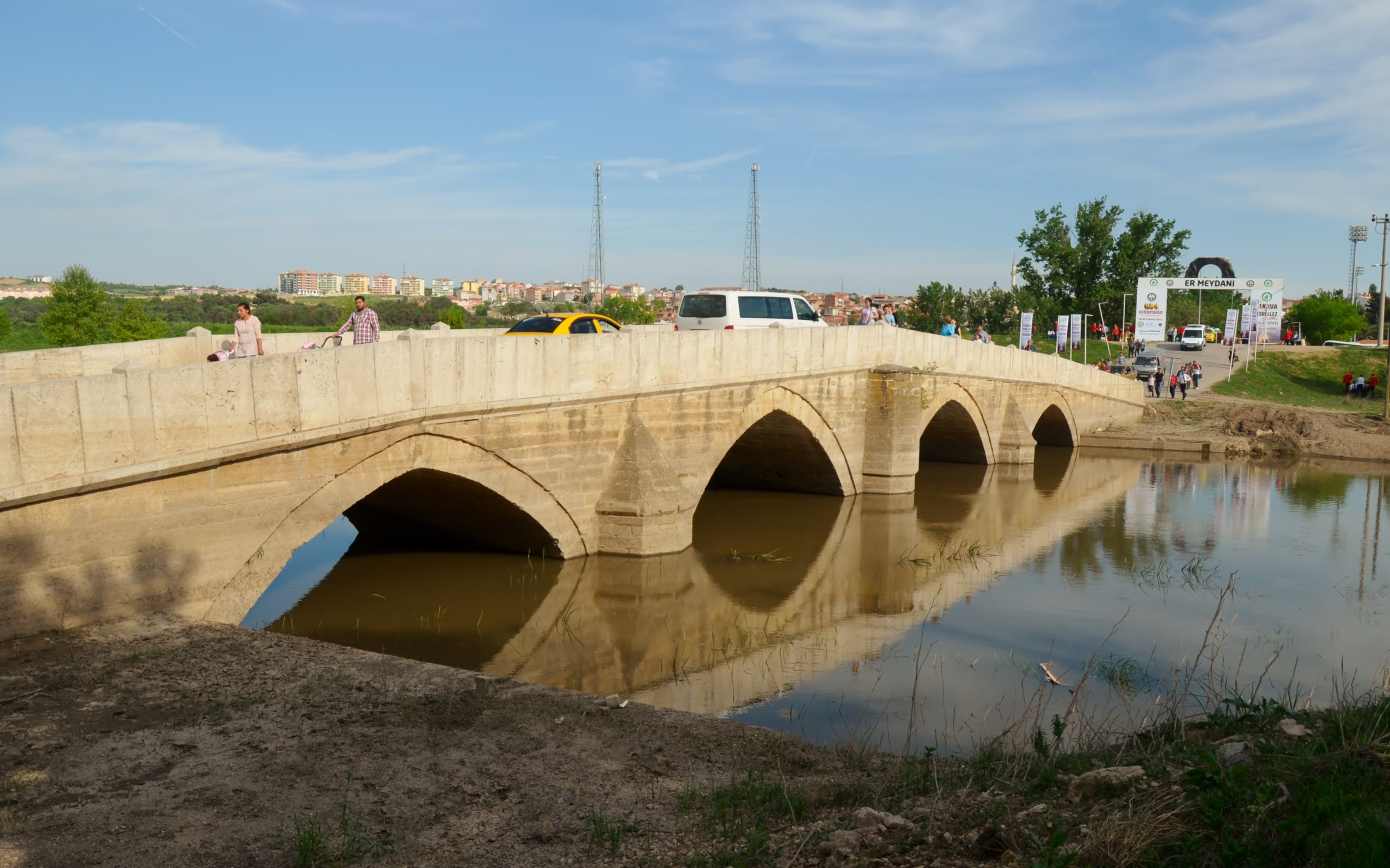 Kanuni Bridge over Tuna (Tundzha) in Edirne, Turkey